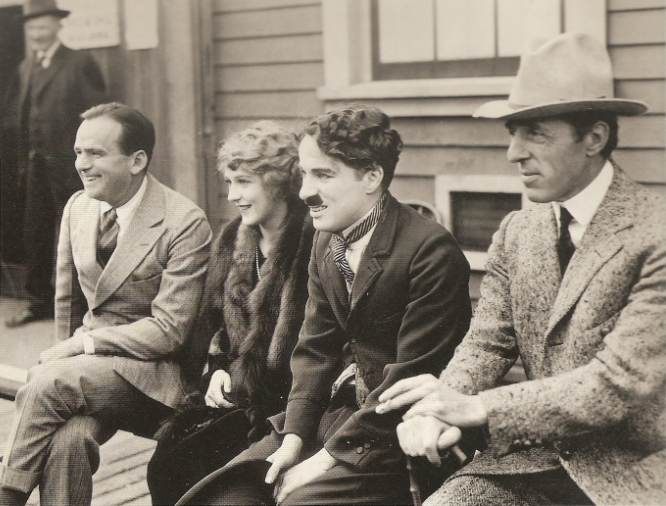 United Artists Corporation stockholders Douglas Fairbanks, Mary Pickford, Charlie Chaplin and D.W. Griffith in 1919.